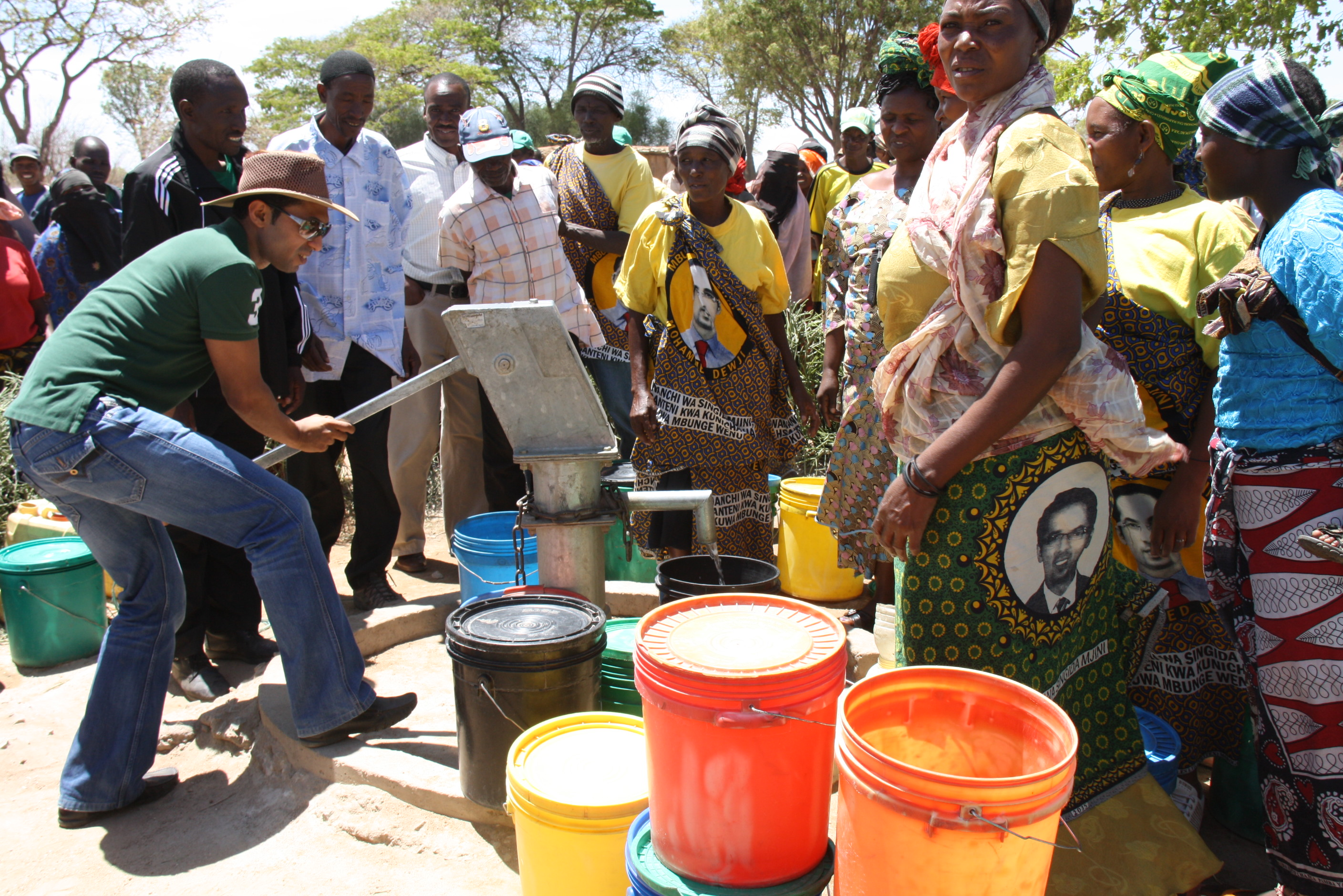 mohammed dewji charity philanthropy